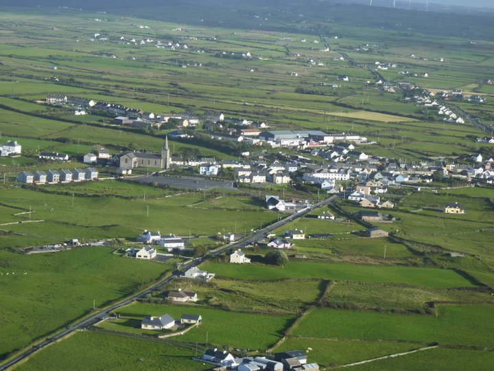 Aerial view of Miltown Malbay from the Northwest